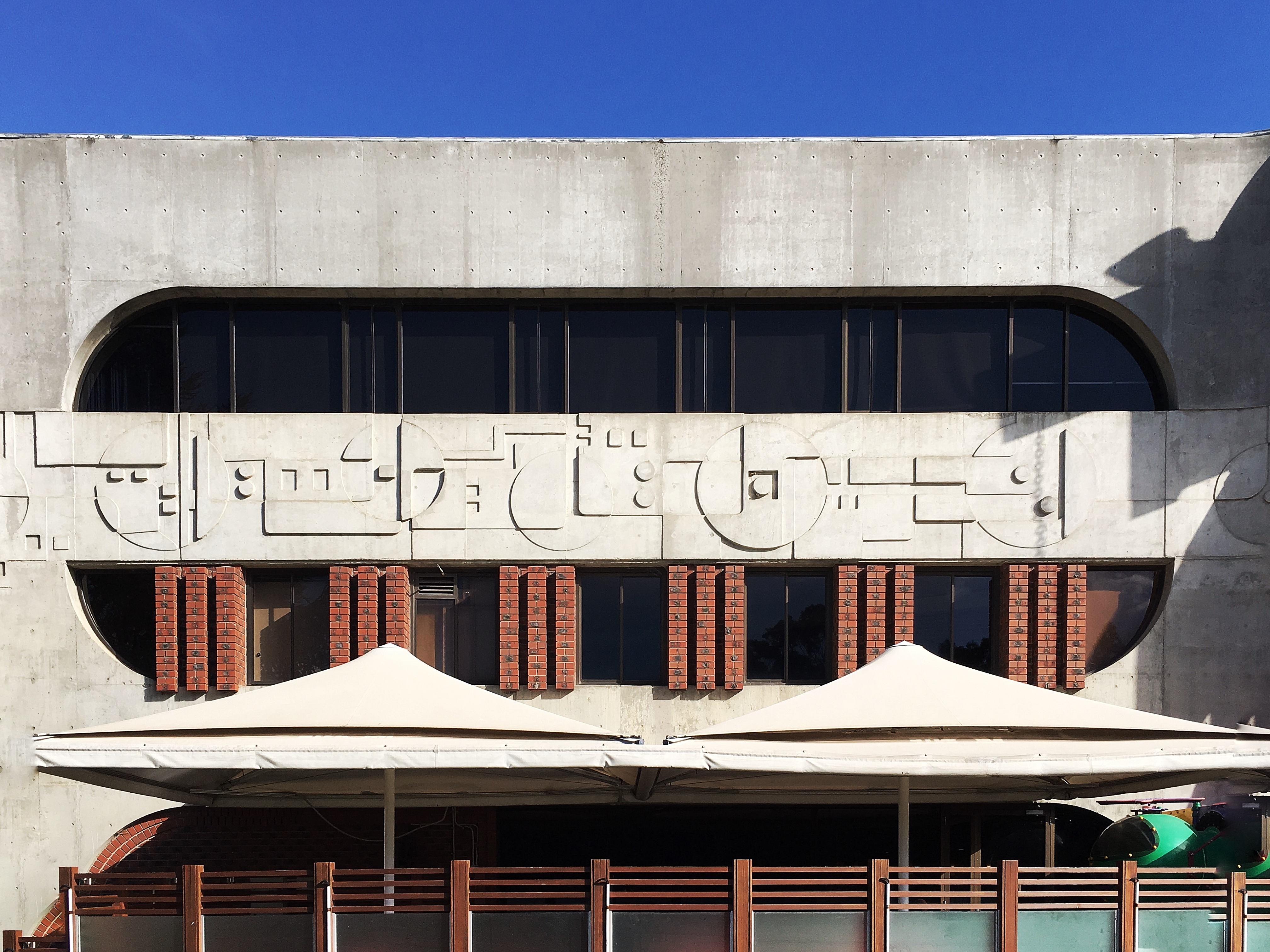 Detail of patterned concrete.